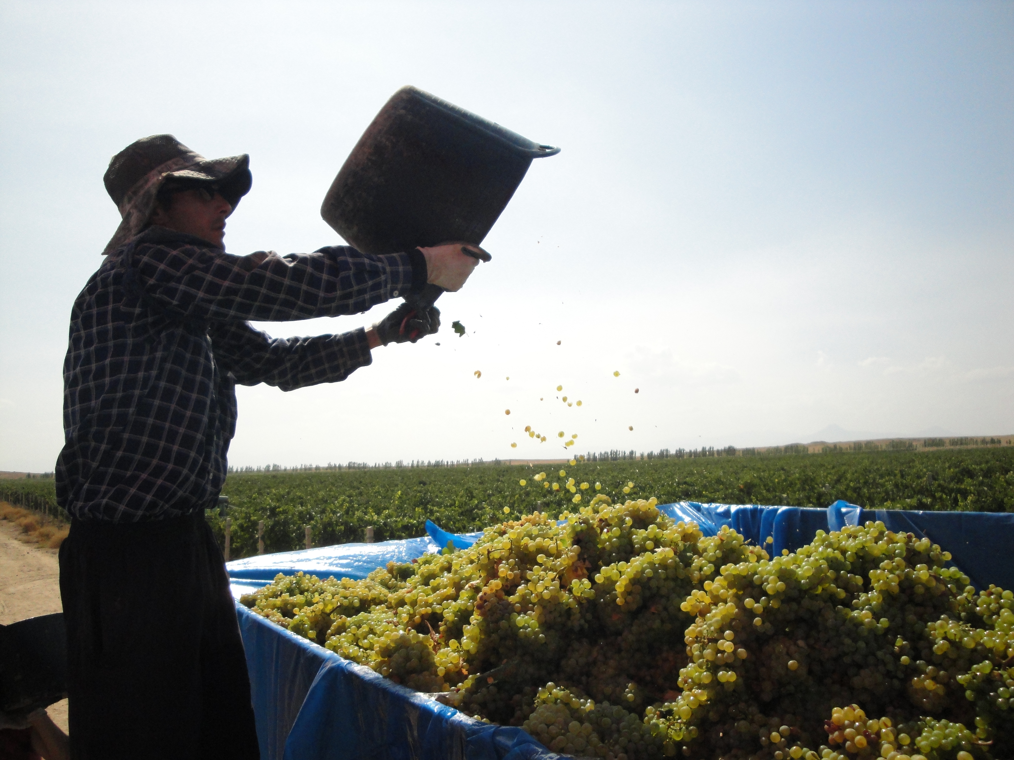 Harvesting grapes for processors.